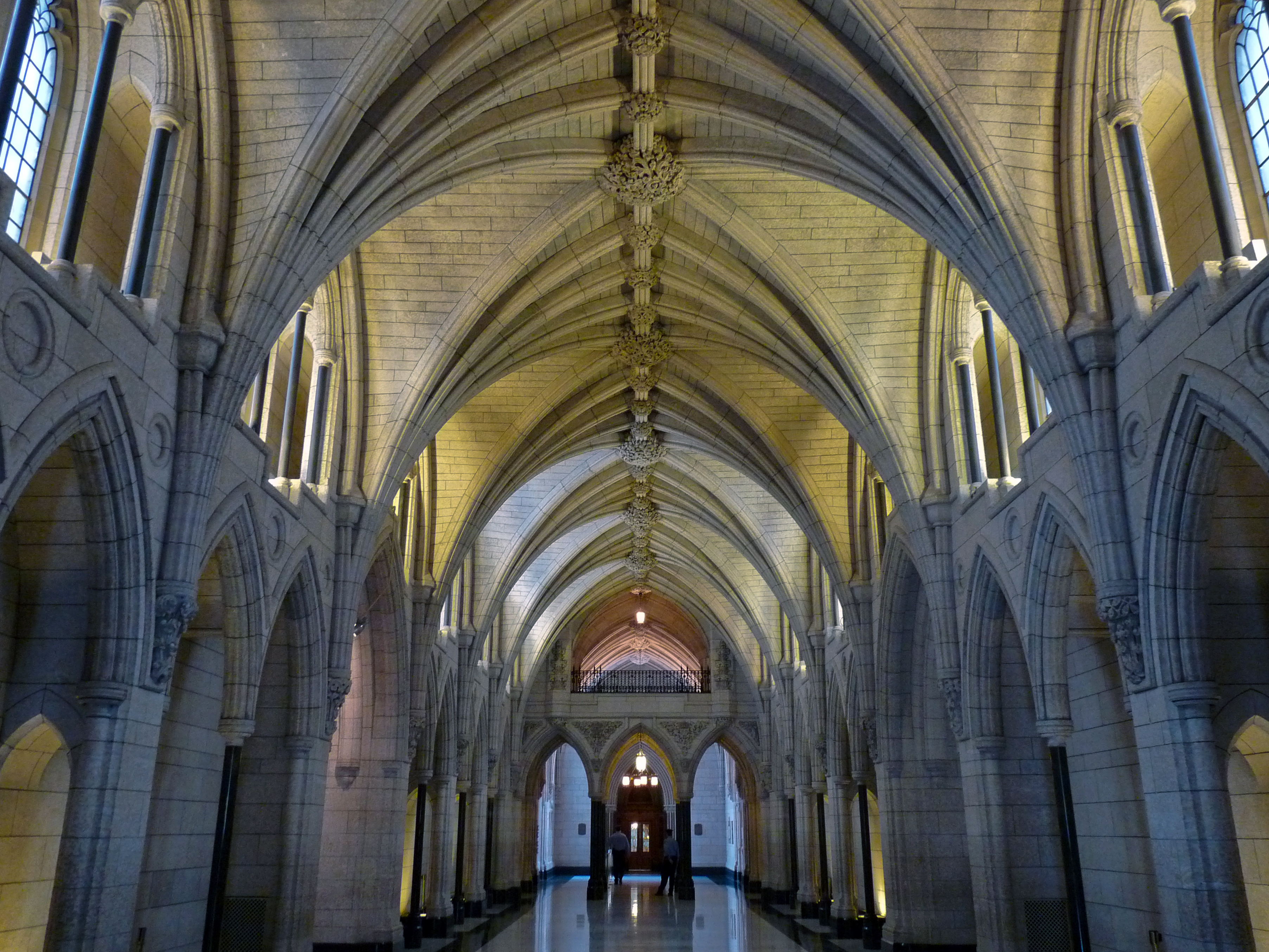 Hall of Honour in the Centre Block of the Parliament of Canada